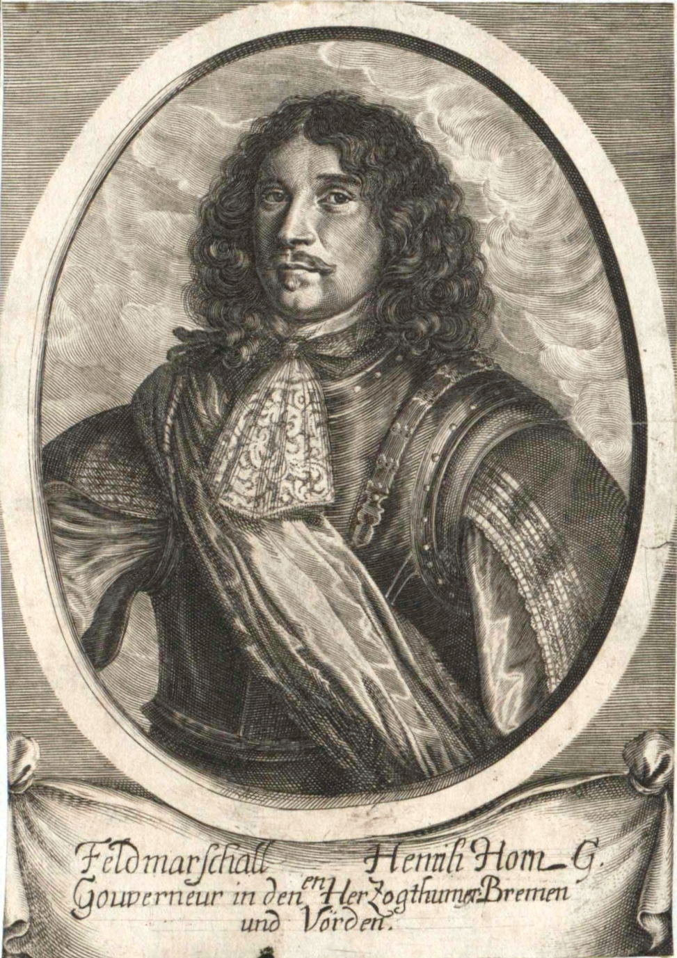 Field Marshal Horn, the Stattthalter of Bremen-Verden